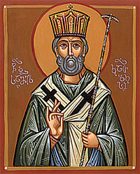 Samoel I of Iberia, second Catholicos of Iberia (c. 500)